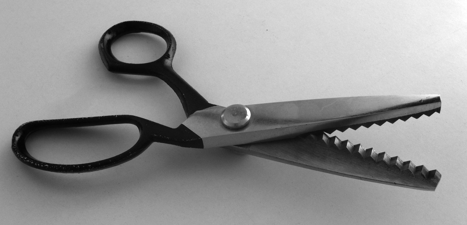 pinking shears